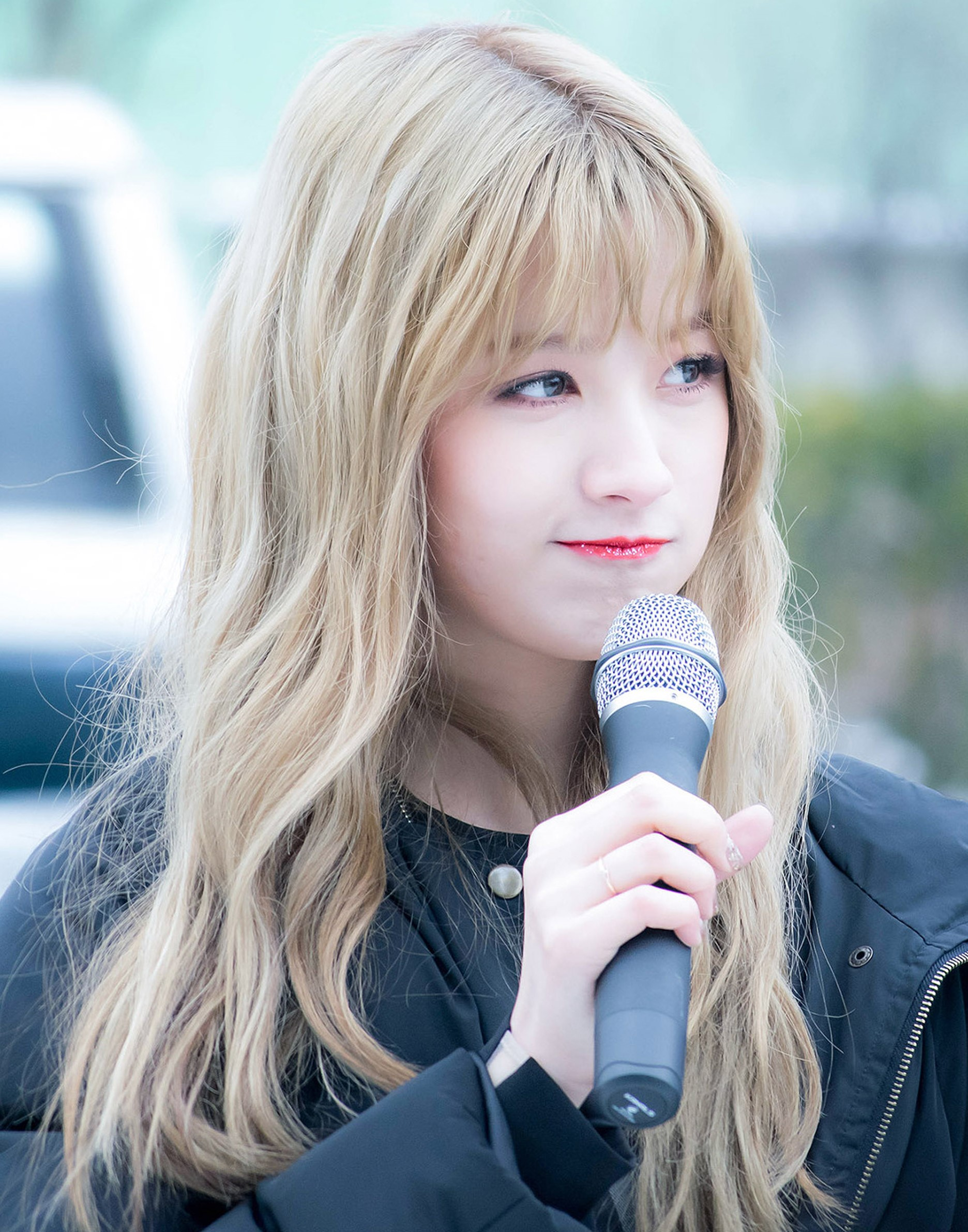 Oh Seung-hee at a fan meeting on January 21, 2017.